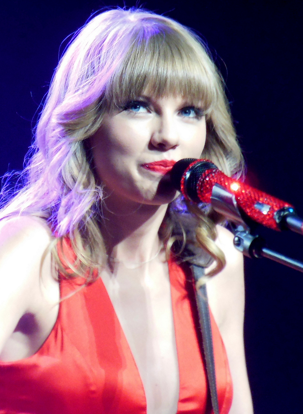 Taylor Swift performing Red Tour in St. Louis, Missouri, 25 March 2013.